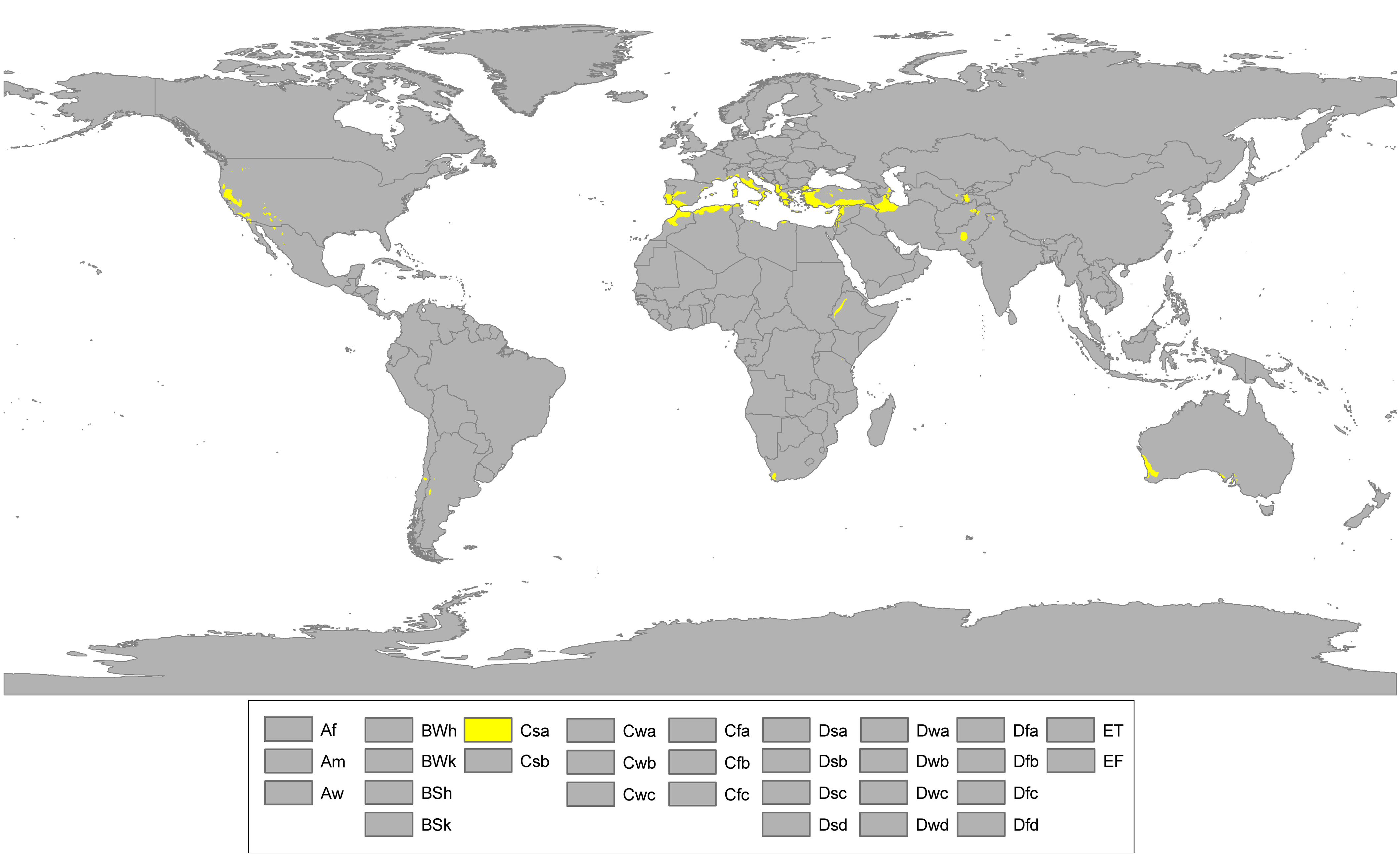 Updated world map of the Köppen-Geiger climate classification. Hot-summer Mediterranean climate (Csa)